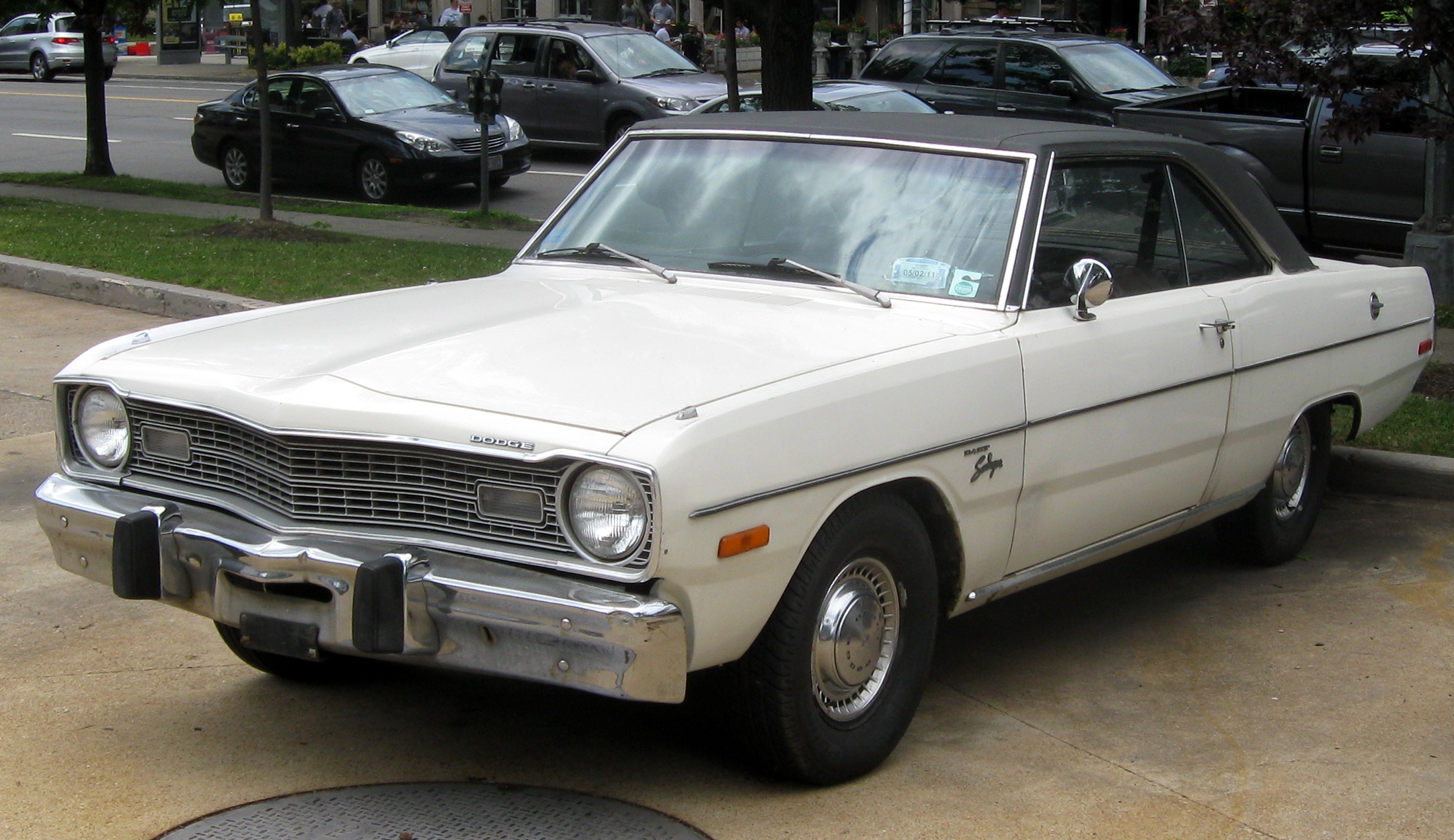 1974 Dodge Dart Swinger photographed in Washington, D.C., USA.